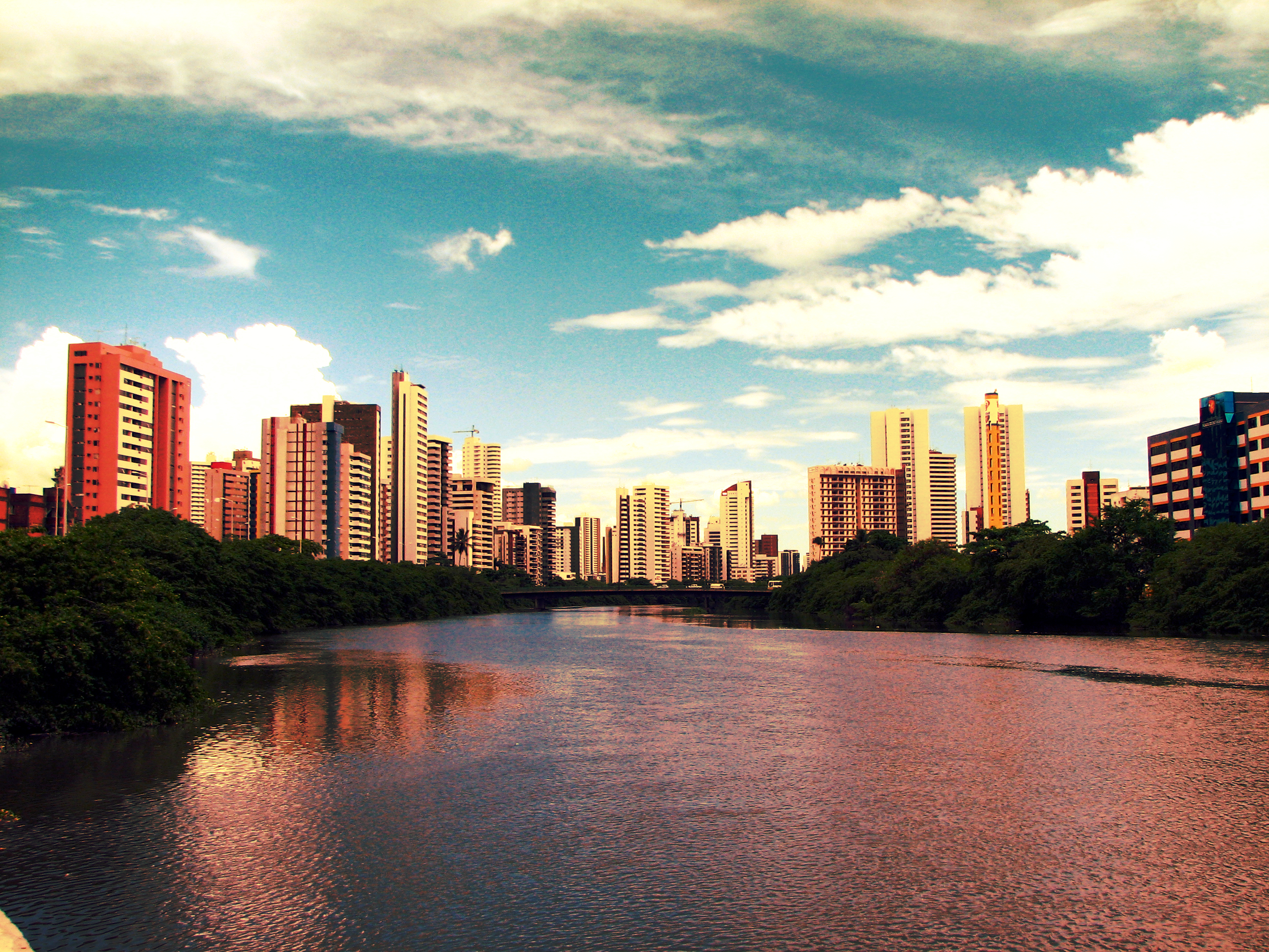 Capibaribe River - Recife - Pernambuco - Brazil